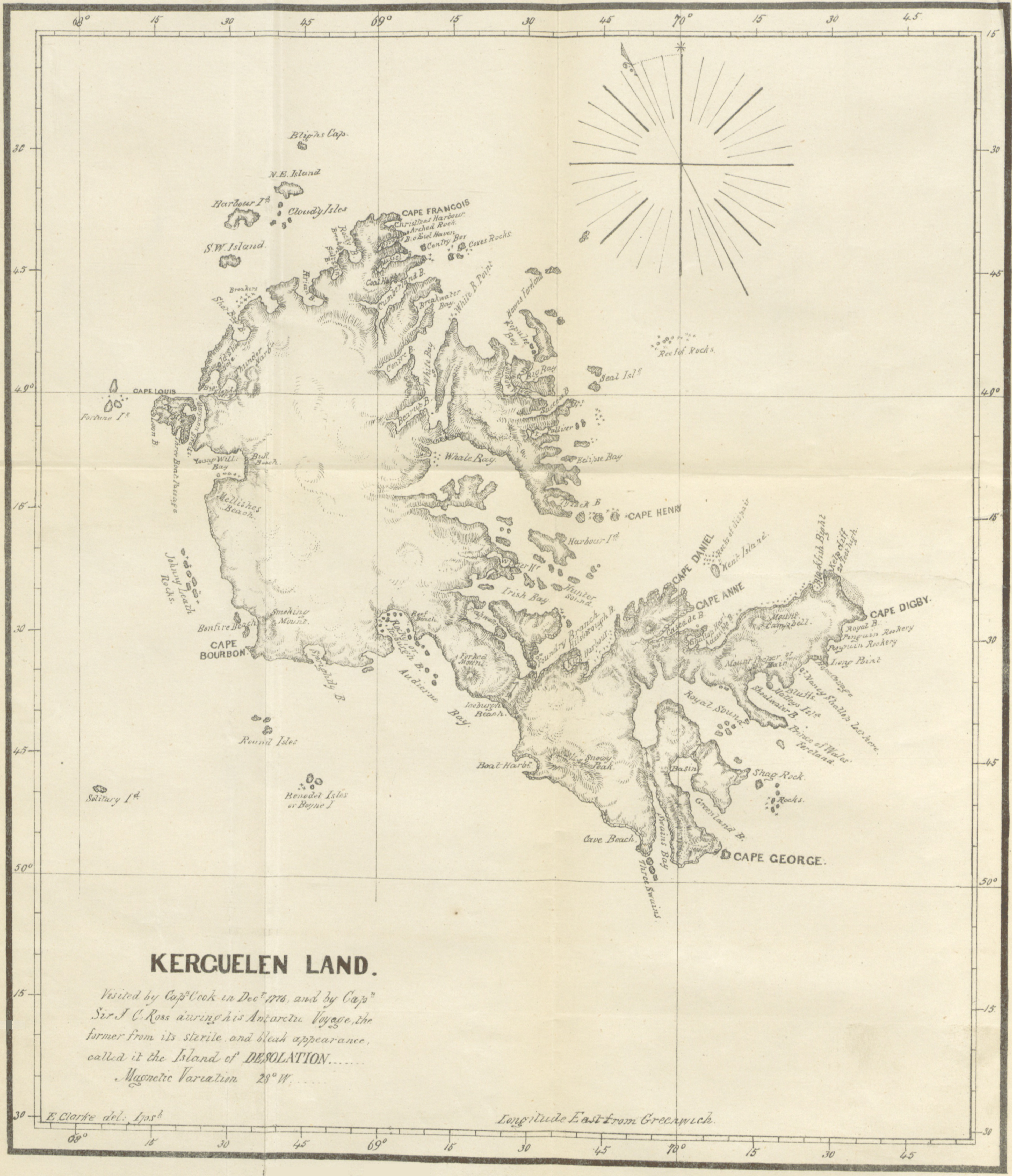 Map of the Kerguelen Islands after John Nunn